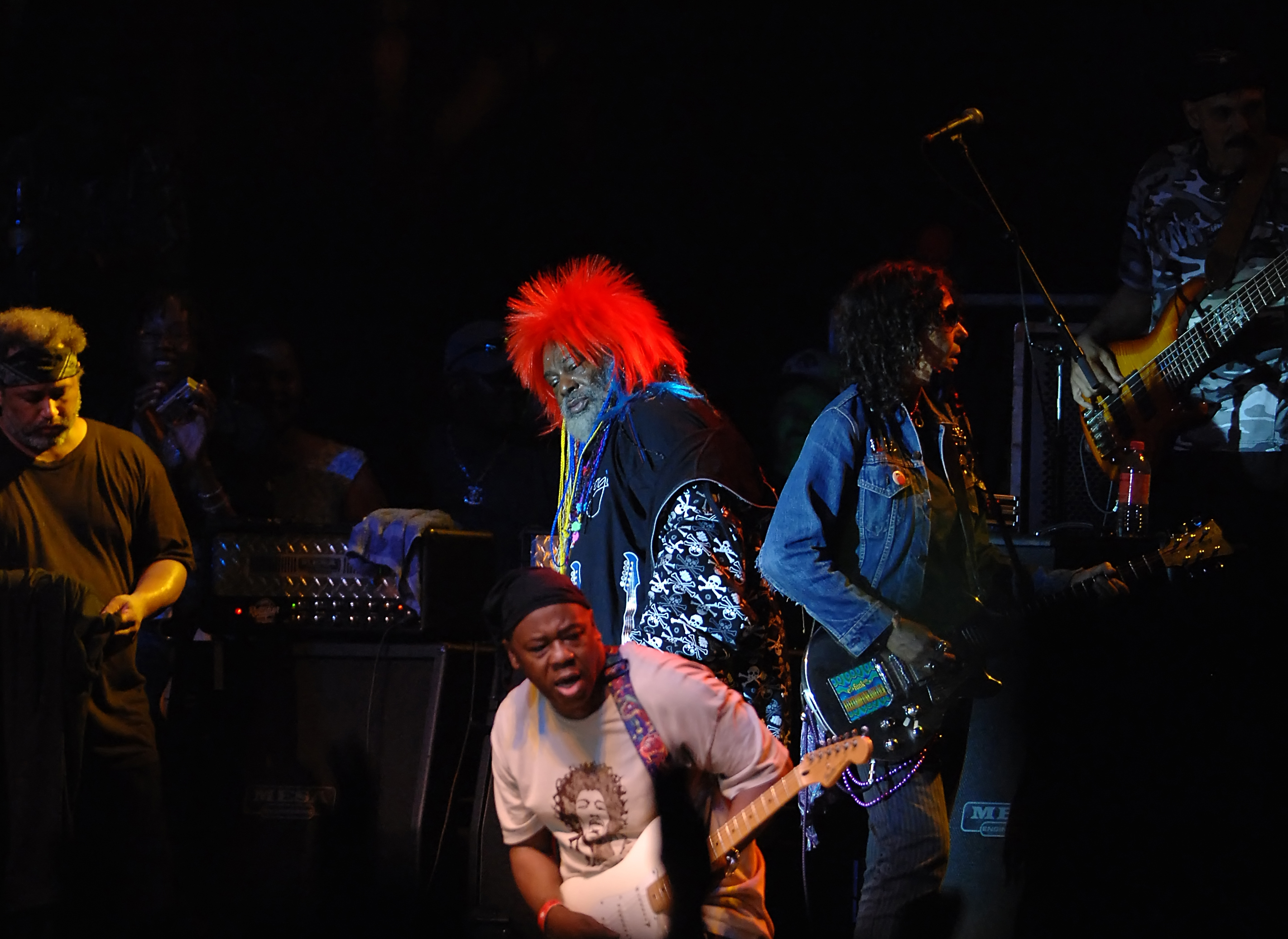 George Clinton & Parliament Funkadelic performing in Waterfront Park, Louisville, Kentucky on July 4th, 2008. Nikon D2x and 200mm f/2 lens